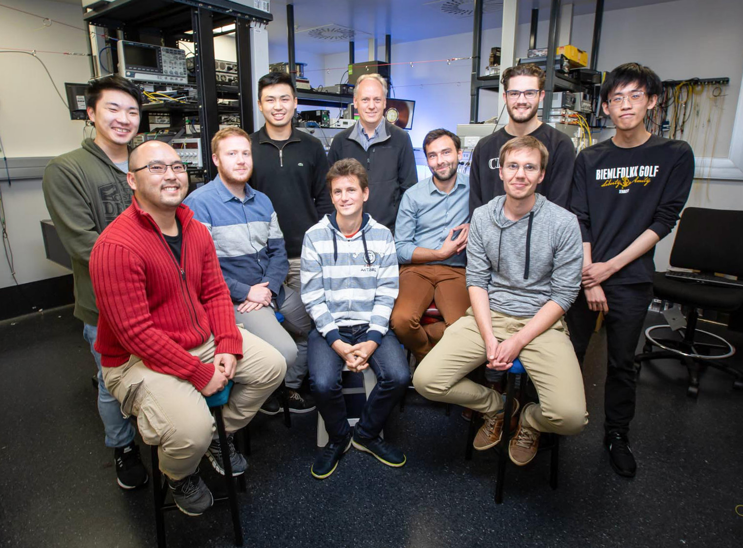 Miro Erkintalo (Q43129407) with his research team in the lab at The University of Auckland.